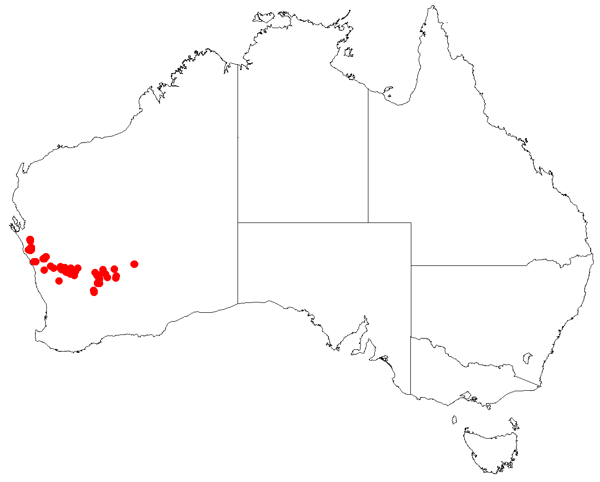 Allocasuarina dielsiana occurrence data from Australasian Virtual Herbarium download 4 July 2018